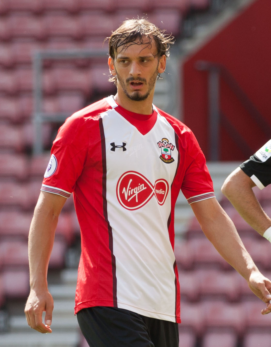 Southampton, St Mary's Stadium, August 5, 2017. Southampton FC — Sevilla FC 2-0 (Stephens 26', Gabbiadini 82'), exhibition game. Saints' forward Manolo Gabbiadini.